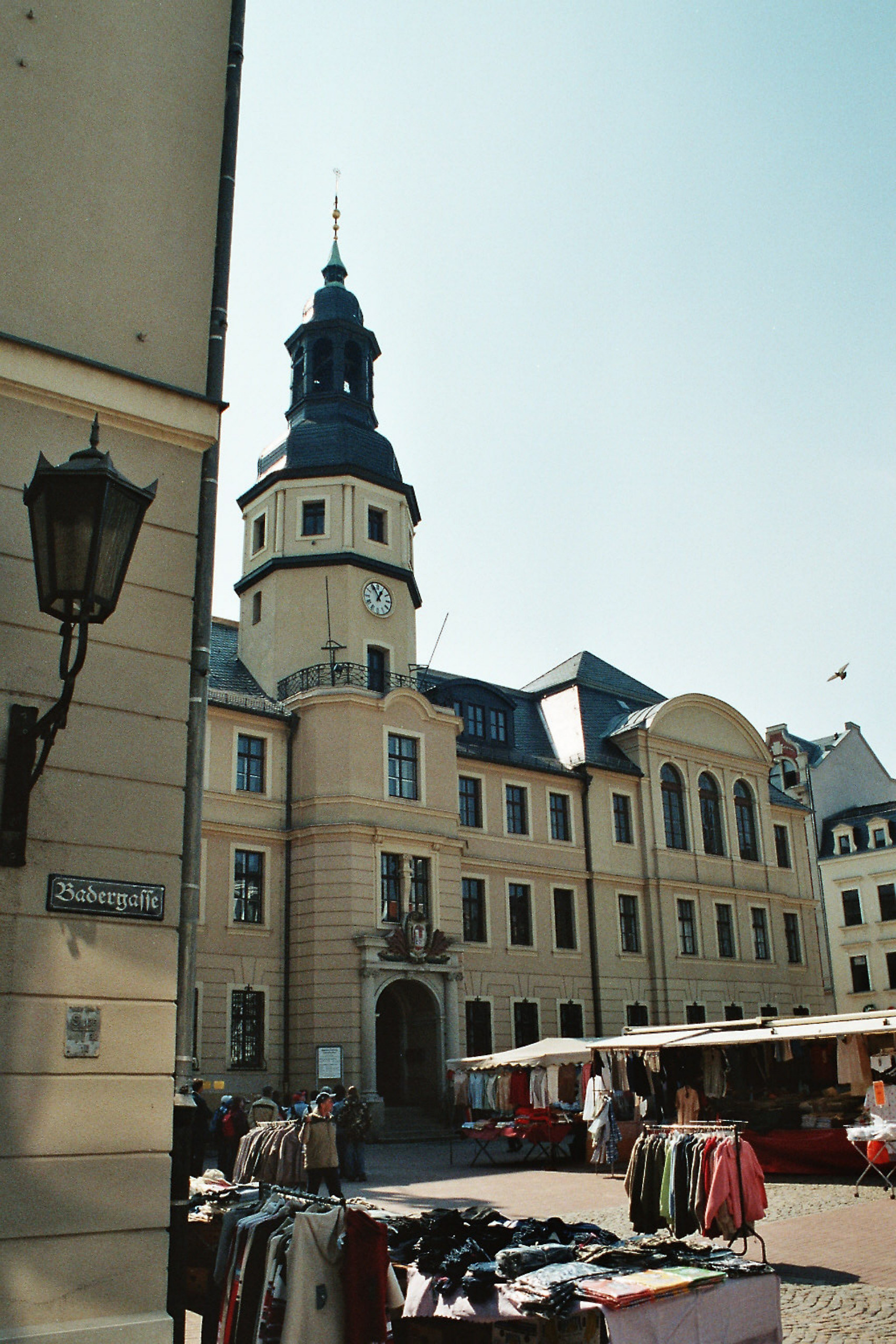 Crimmitschau, the town hall